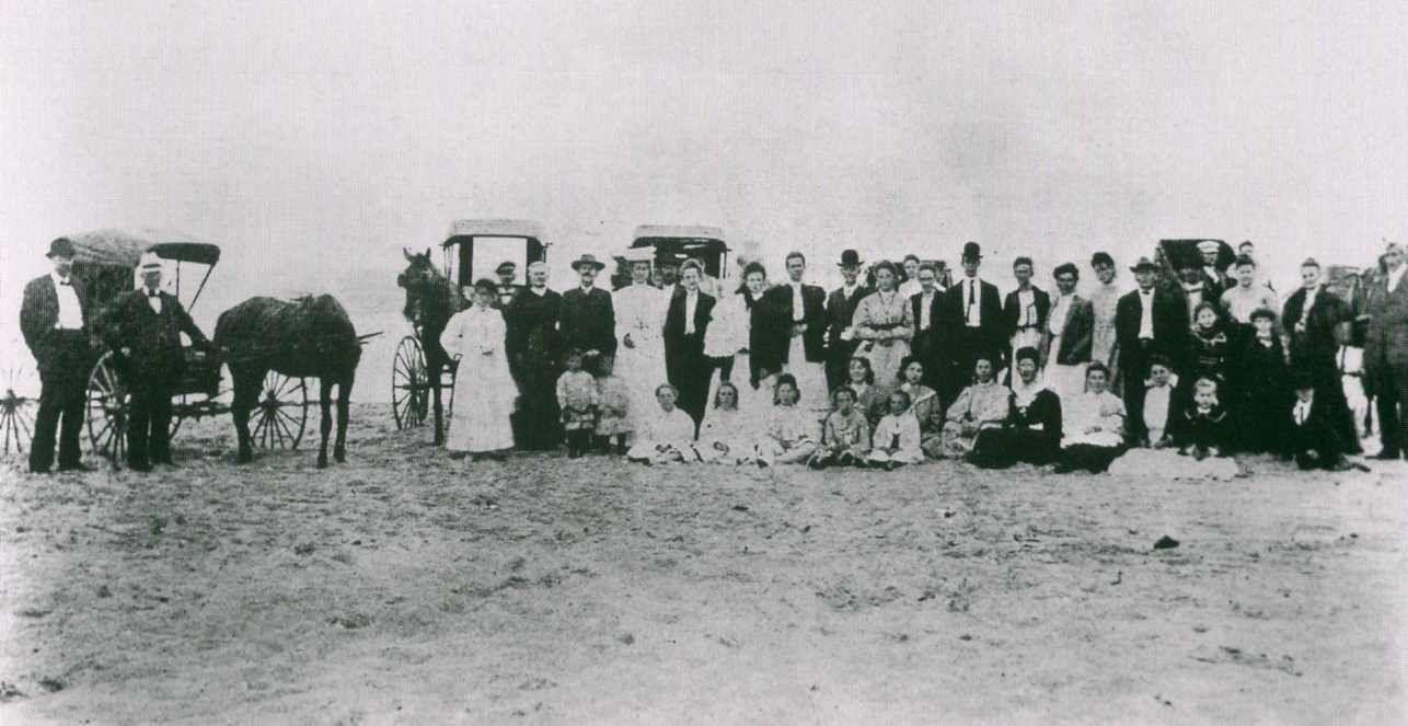 A church group from Ocean View at a fish fry in 1880 on the Atlantic coast of Delaware in the area where Bethany Beach would be founded 21 years later. Possibly the first photograph of the future Bethany Beach area.